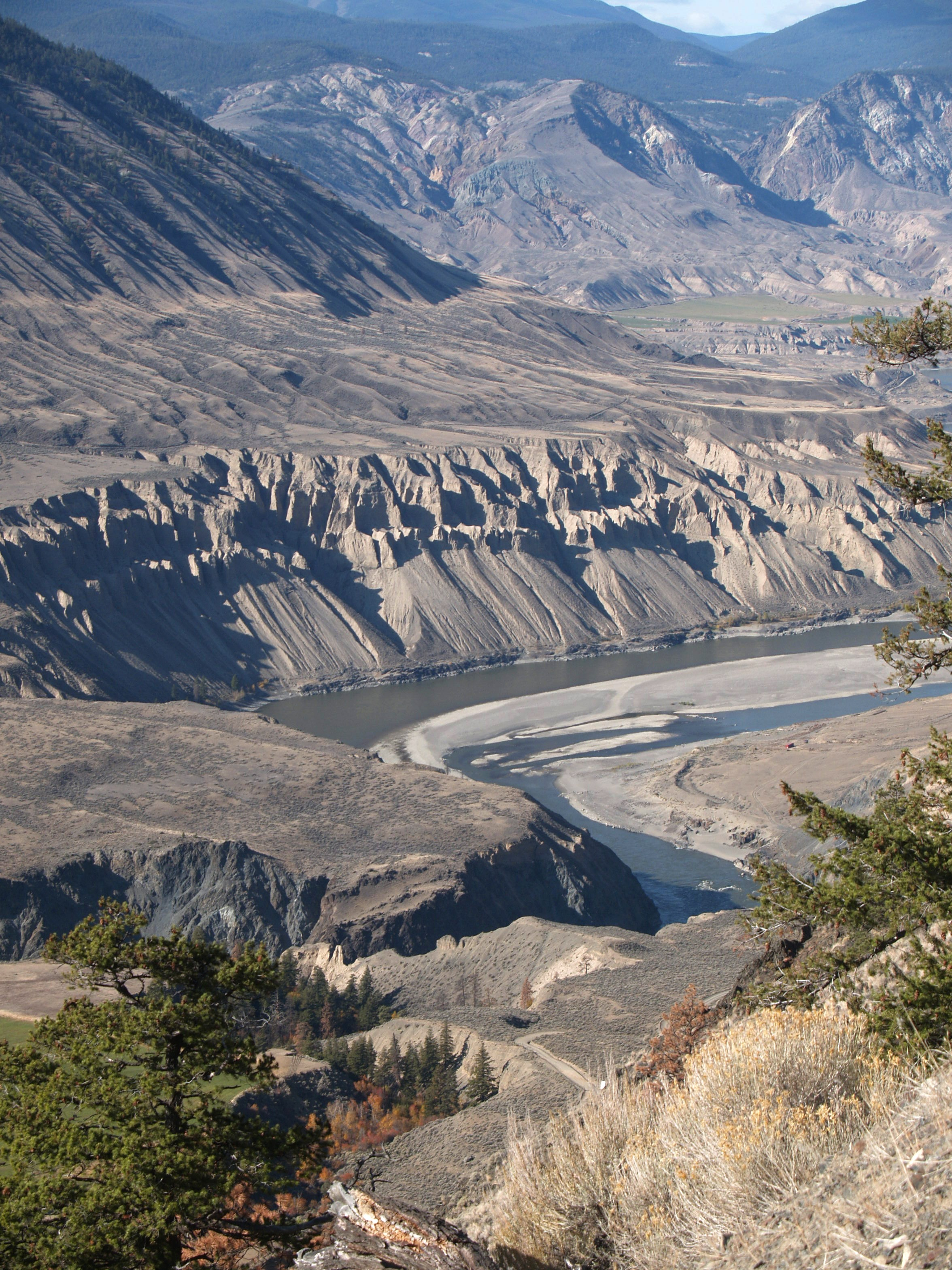 Plateau in the valley of the Fraser River at Cougar Point in Canada.